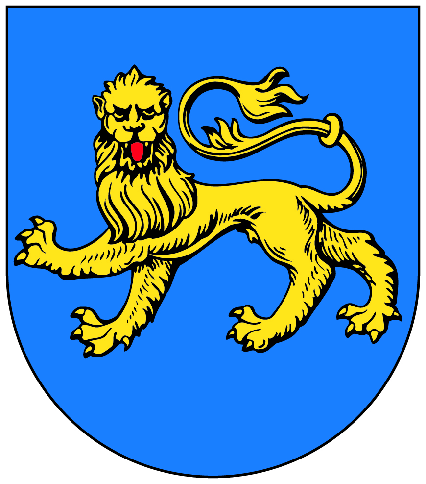 coat of arms municipality of VardeDansk: Vardes våben